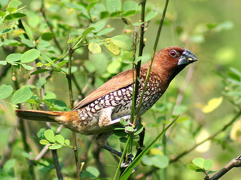 Scaly-breasted Munia Lonchura punctulata in Kolkata, West Bengal, India.